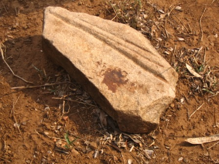 A rock in Hluhluwe-Umfolozi Park that was formerly used by Zulu hunters for sharpening spears.